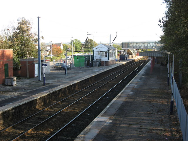 Hazel Grove Railway Station Hazel Grove station was opened on 9 June 1857 and owned by the London & North Western Railway. Originally one of two stations in the town, it is now served by Northern Rail trains between Stockport and Buxton. The station was rebuilt recently but the signal box is original. The photo was taken from the public footbridge crossing the line at the northern end of the station.